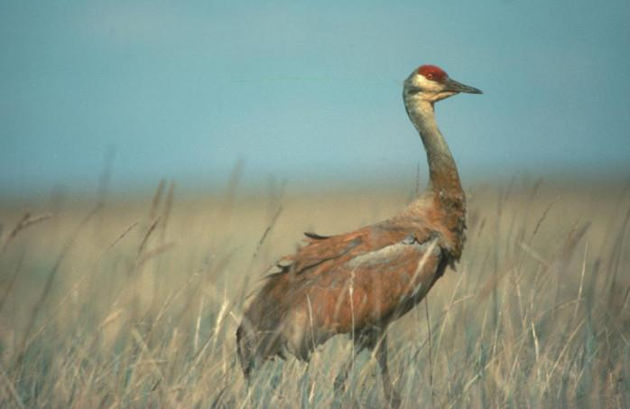 Ottawa National Wildlife Refuge/USFWS